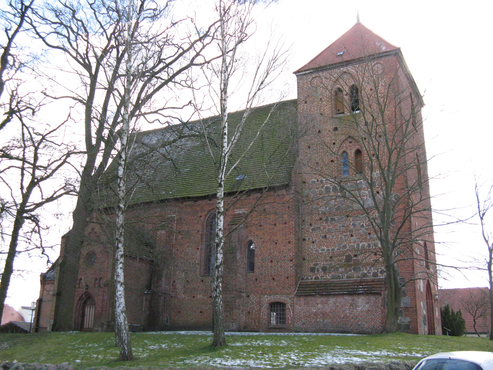 Church in Goldberg, district Ludwigslust-Parchim, Mecklenburg-Vorpommern, Germany